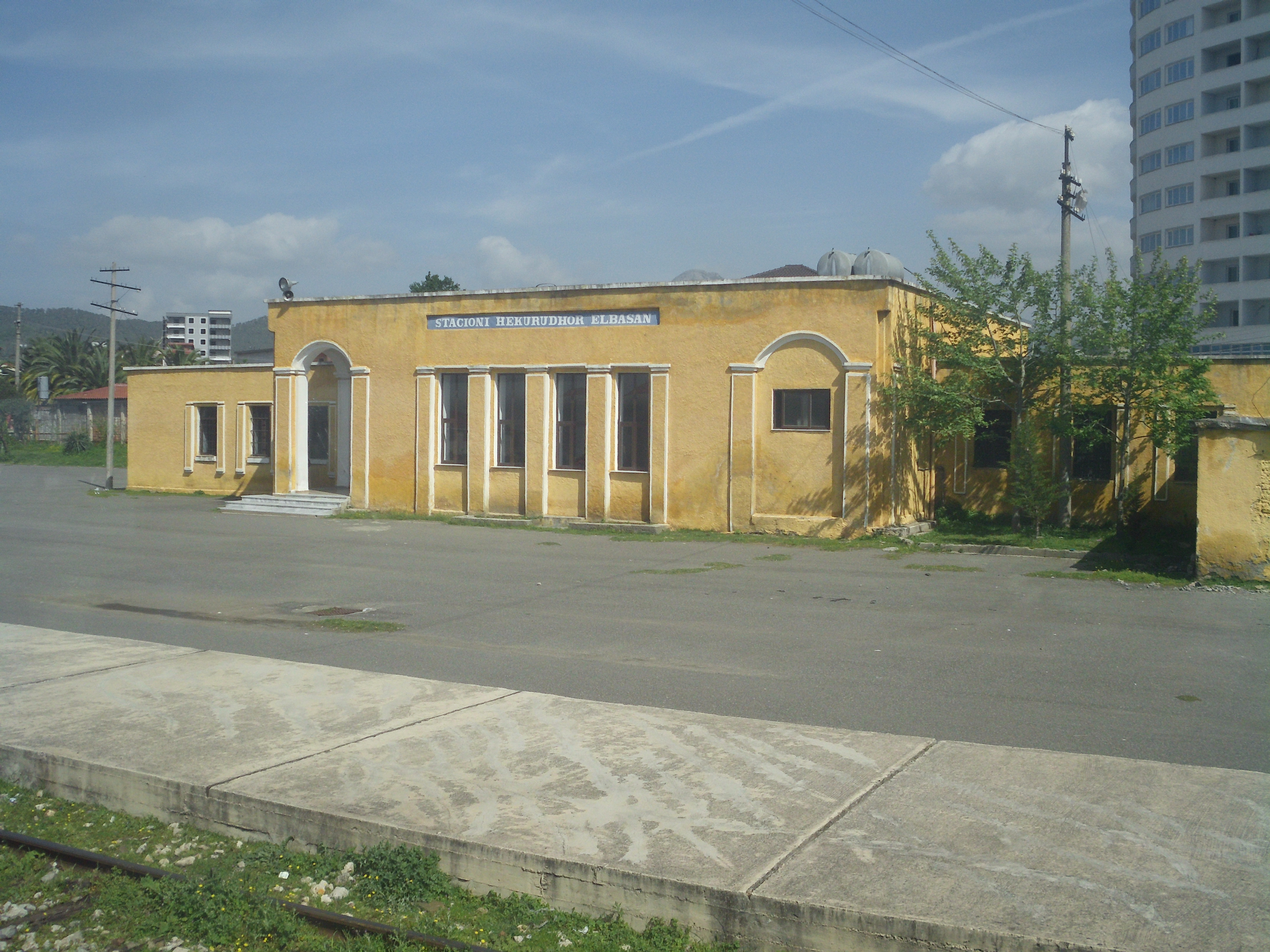 Train station in Elbasan, Albania